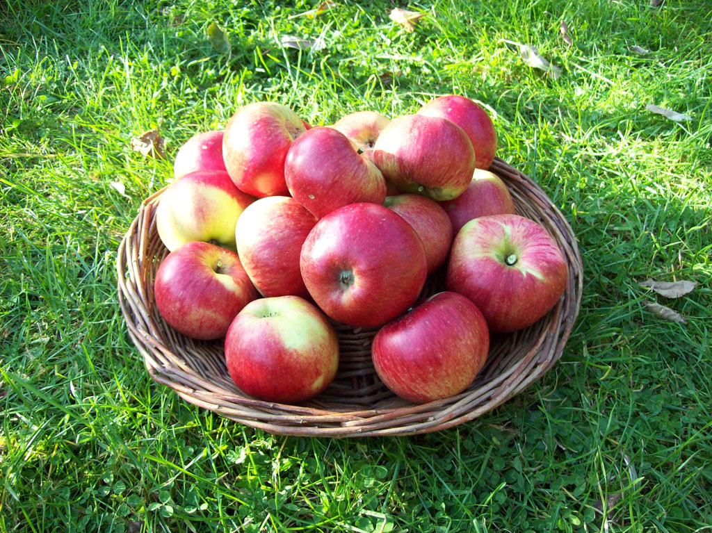 Cox Pomona, an English apple cultivar.